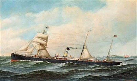 Ship portrait of S/S Norge (Norway) of the Danish Thingvalla Line , 1896